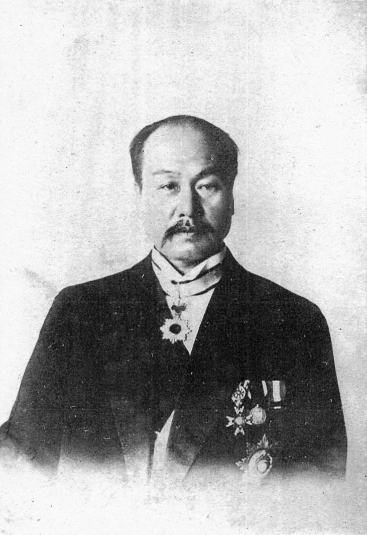 Portrait of Mr. Shūji Isawa at 60th birthday.